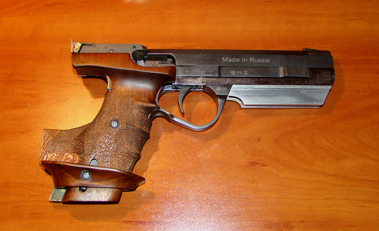 IZH-35M - .22 sport pistol (lightly modernized)